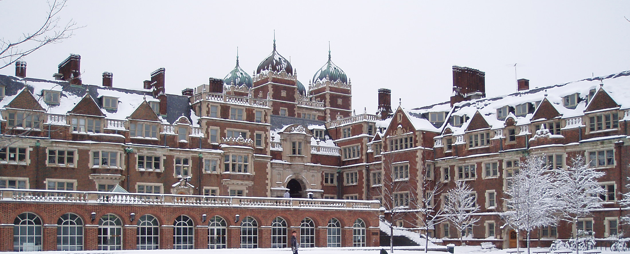 Quadrangle Building at the University of Pennsylvania